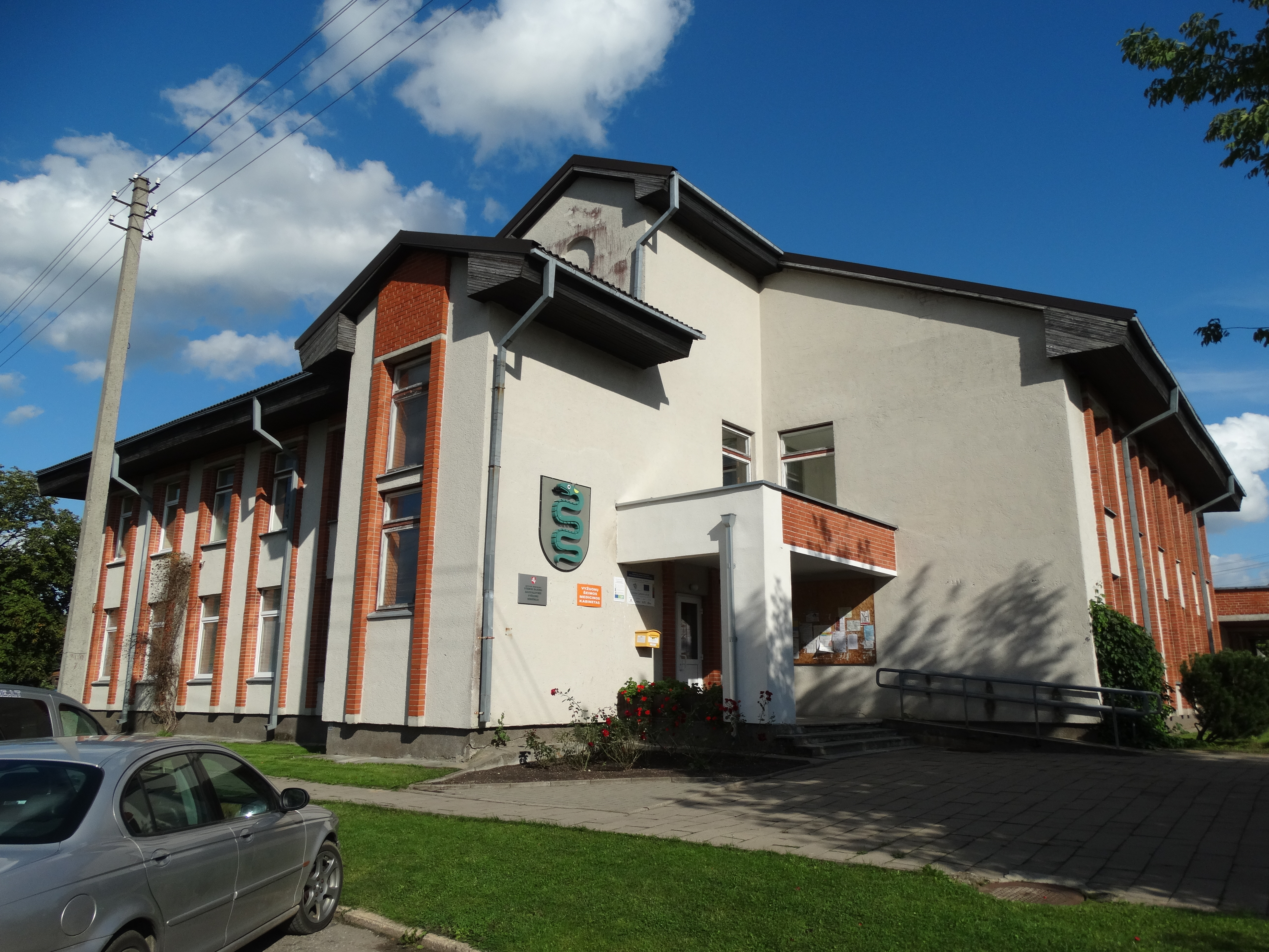 Eldership, Vyžuonos, Utena district, Lithuania